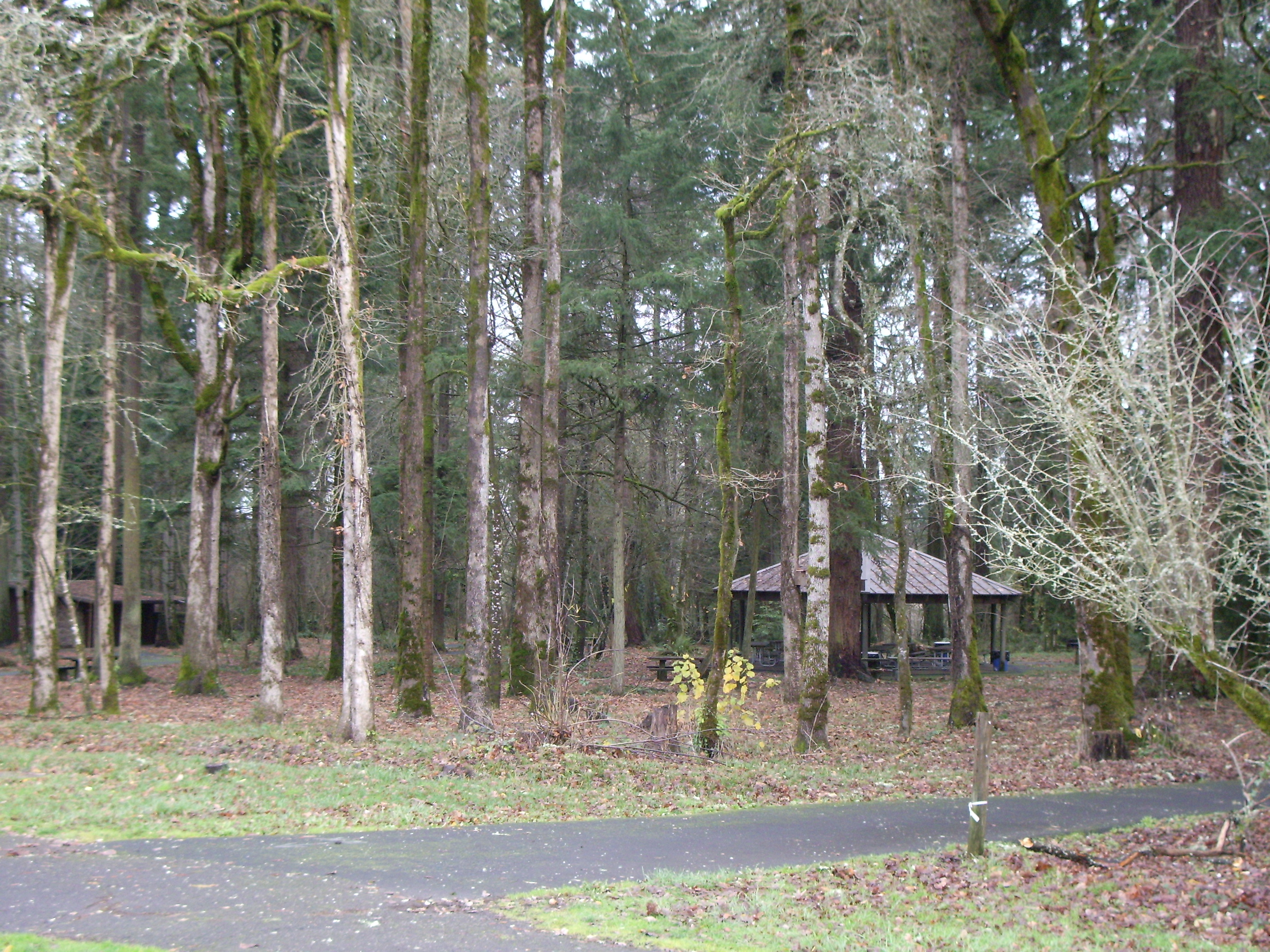 Picnic shelter Mary S Young State Park.